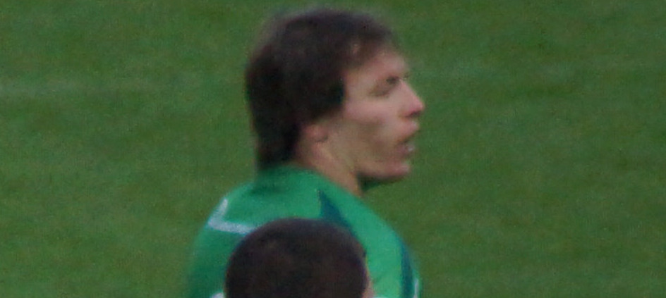 2013 Rugby League World Cup match between England and Ireland at John Smith's Stadium, Huddersfield.